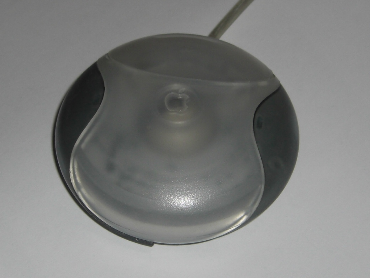 The mouse of MAC OS9